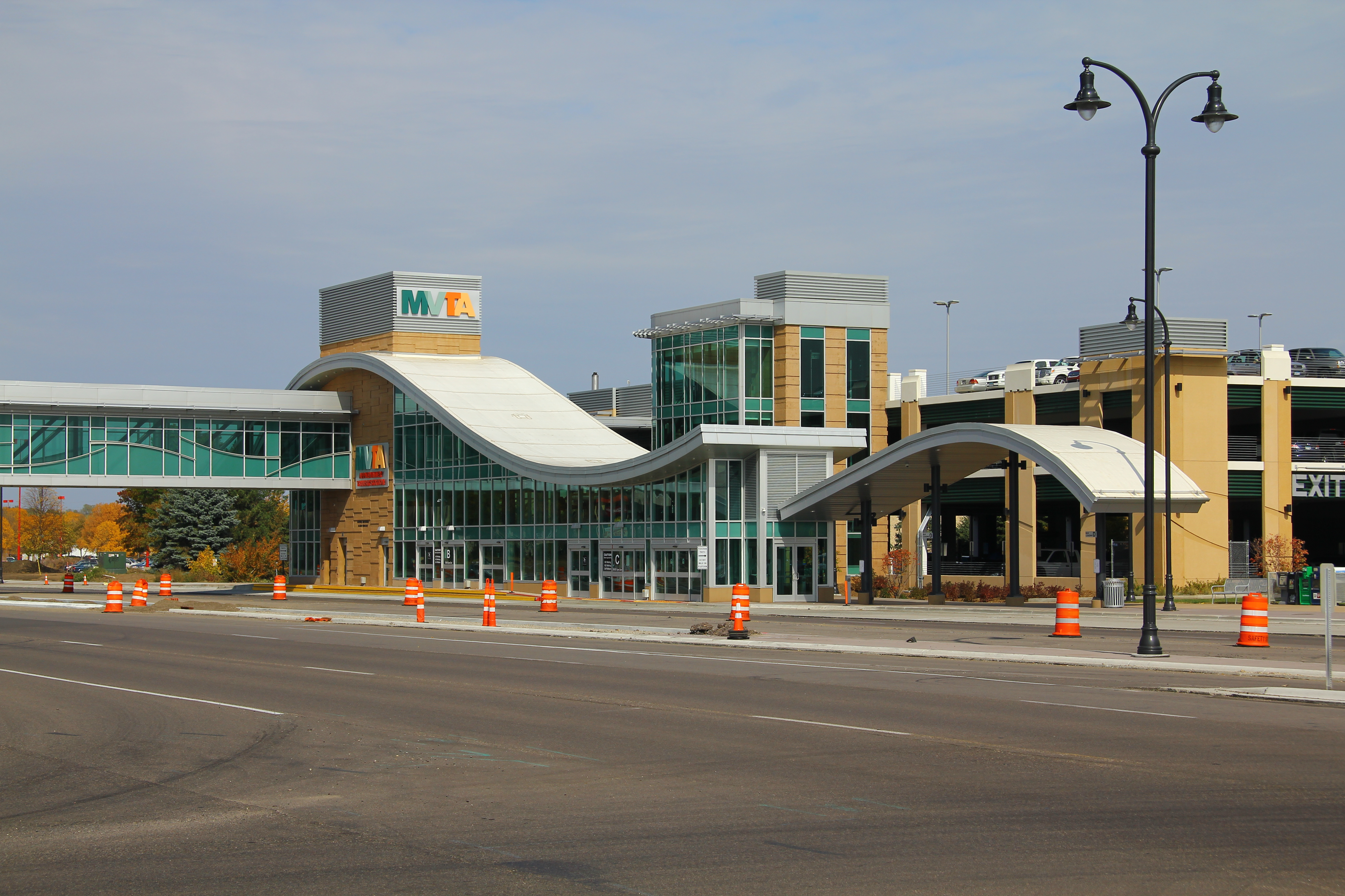 View of the northbound side of Apple Valley Transit Station from across Cedar Avenue.